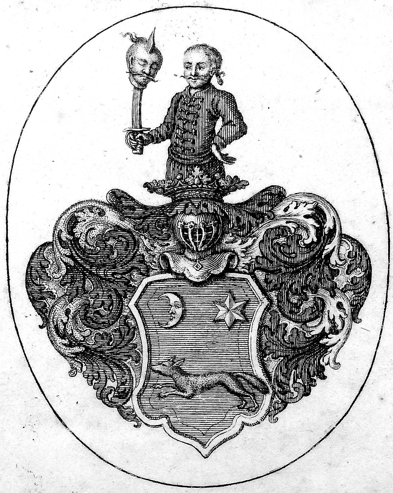 Penn Libraries call number: GC7 W8326 755k All images from this book Armorial Ex-libris of David Samuel von Madai